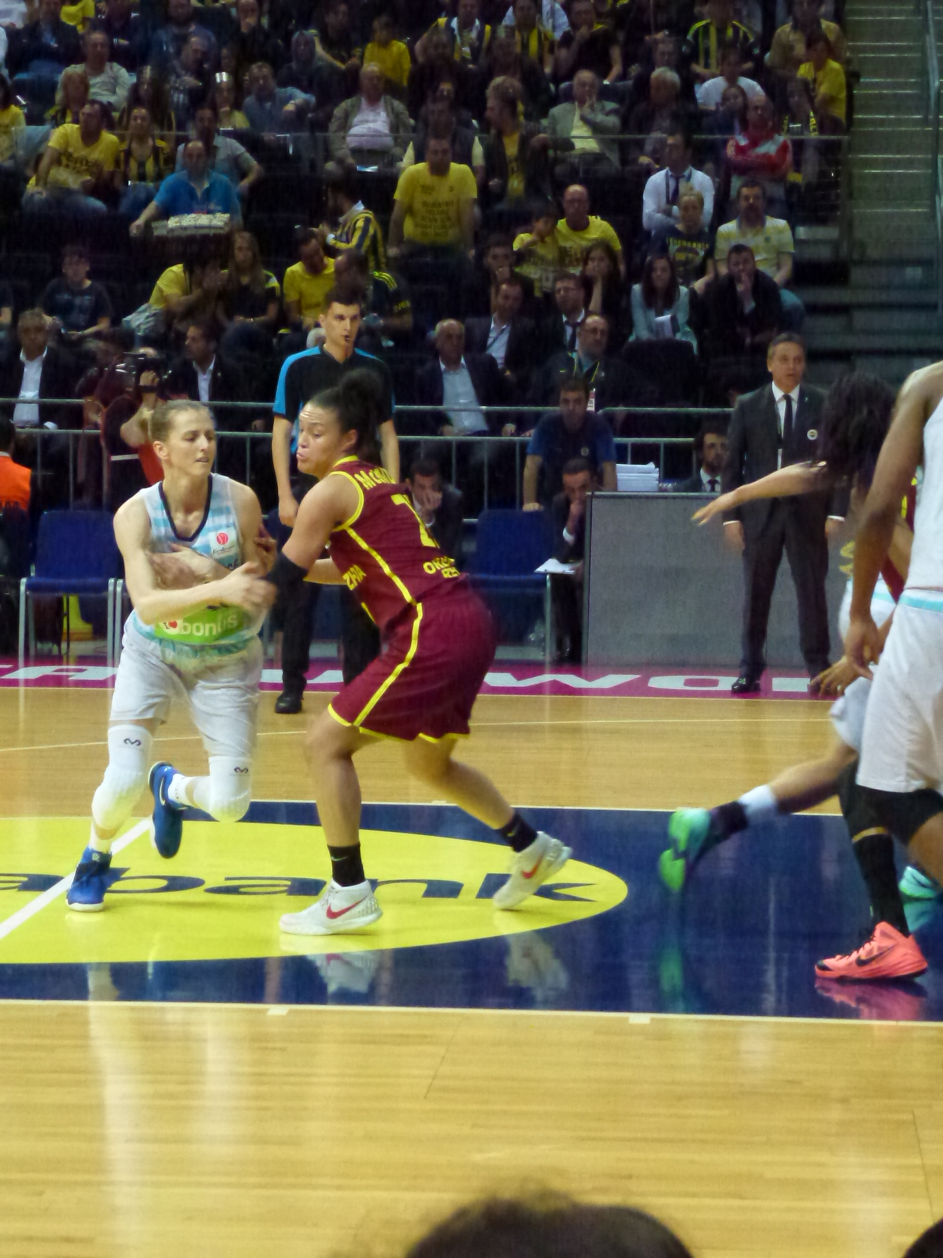 Fenerbahçe Women's Basketball - Nadezhda Orenburg 2015-16 EuroLeague Women semi final on 15 April 2016 in Ülker Sports Arena